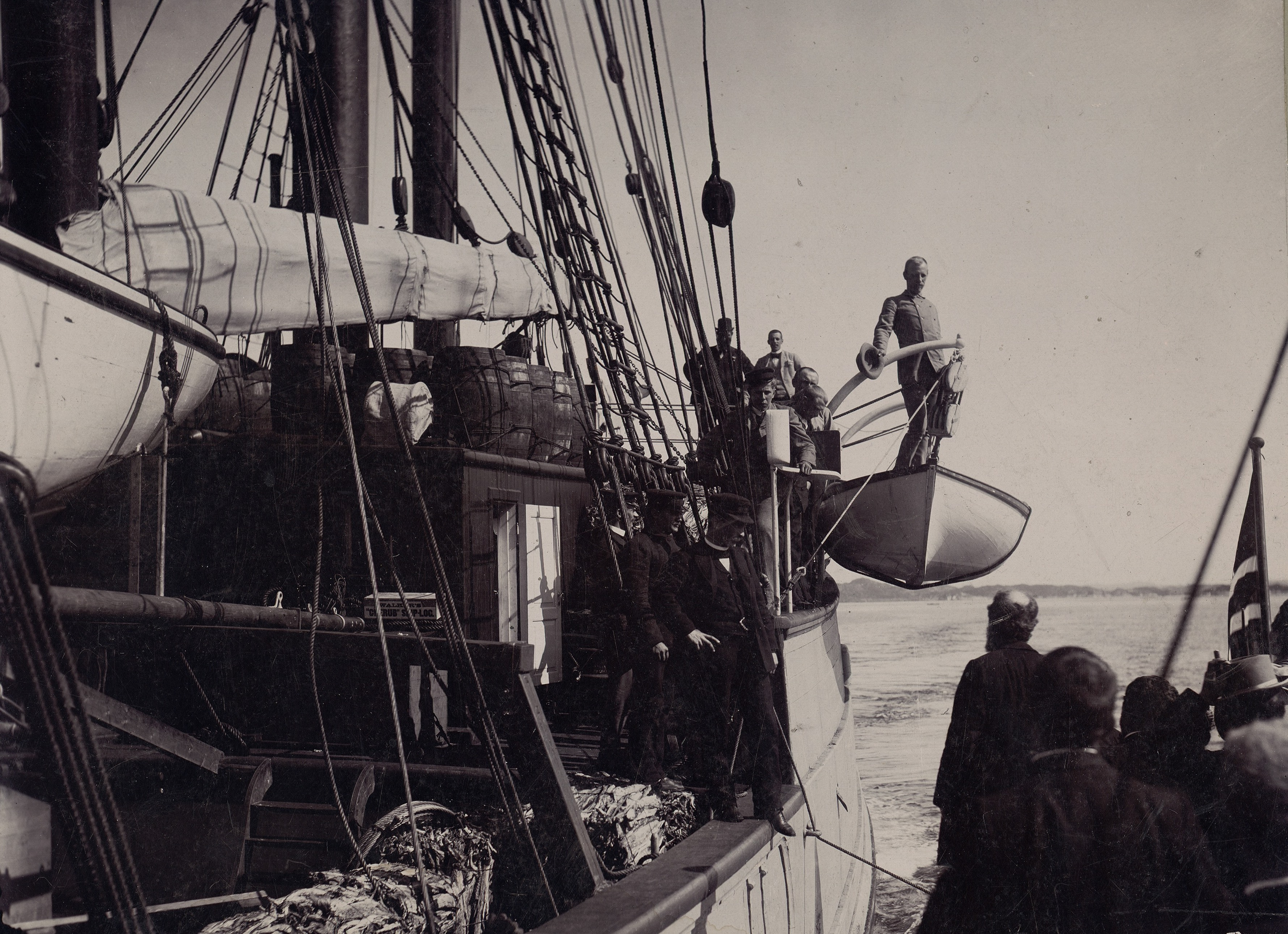 Fridtjof Nansen in the lifeboat and the crew on board «Fram». The ship is leaving Bergen and heading north.